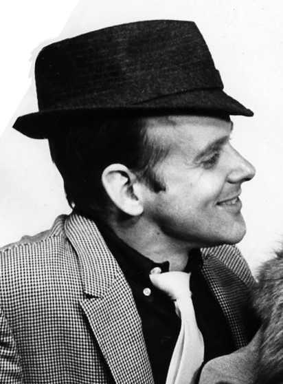 Cropped publicity photo of Bob Fosse for Broadway play, Pal Joey.